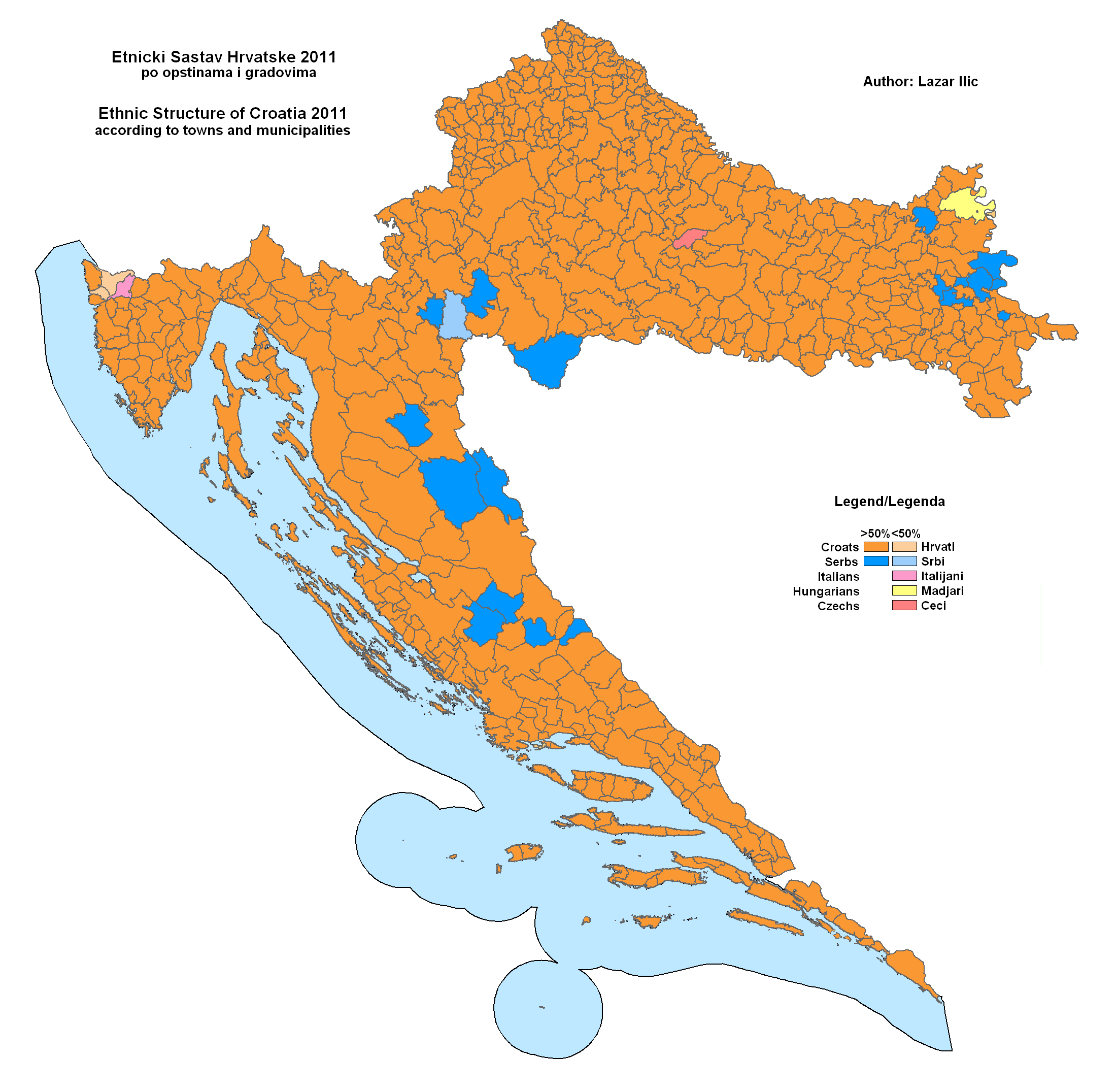 Ethnic map of Croatia, 2011, according to municipalities.